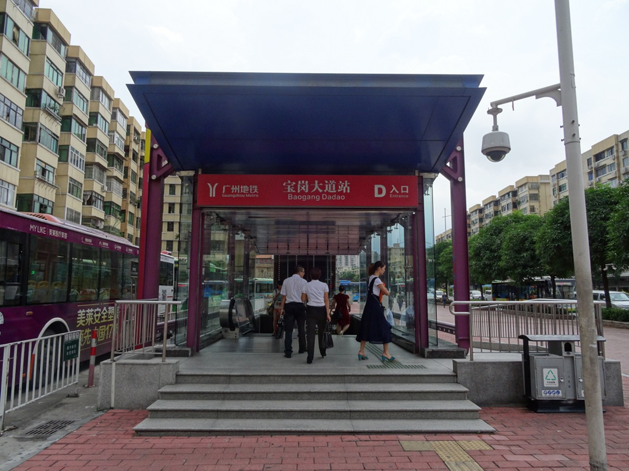 寶崗大道站D出入口